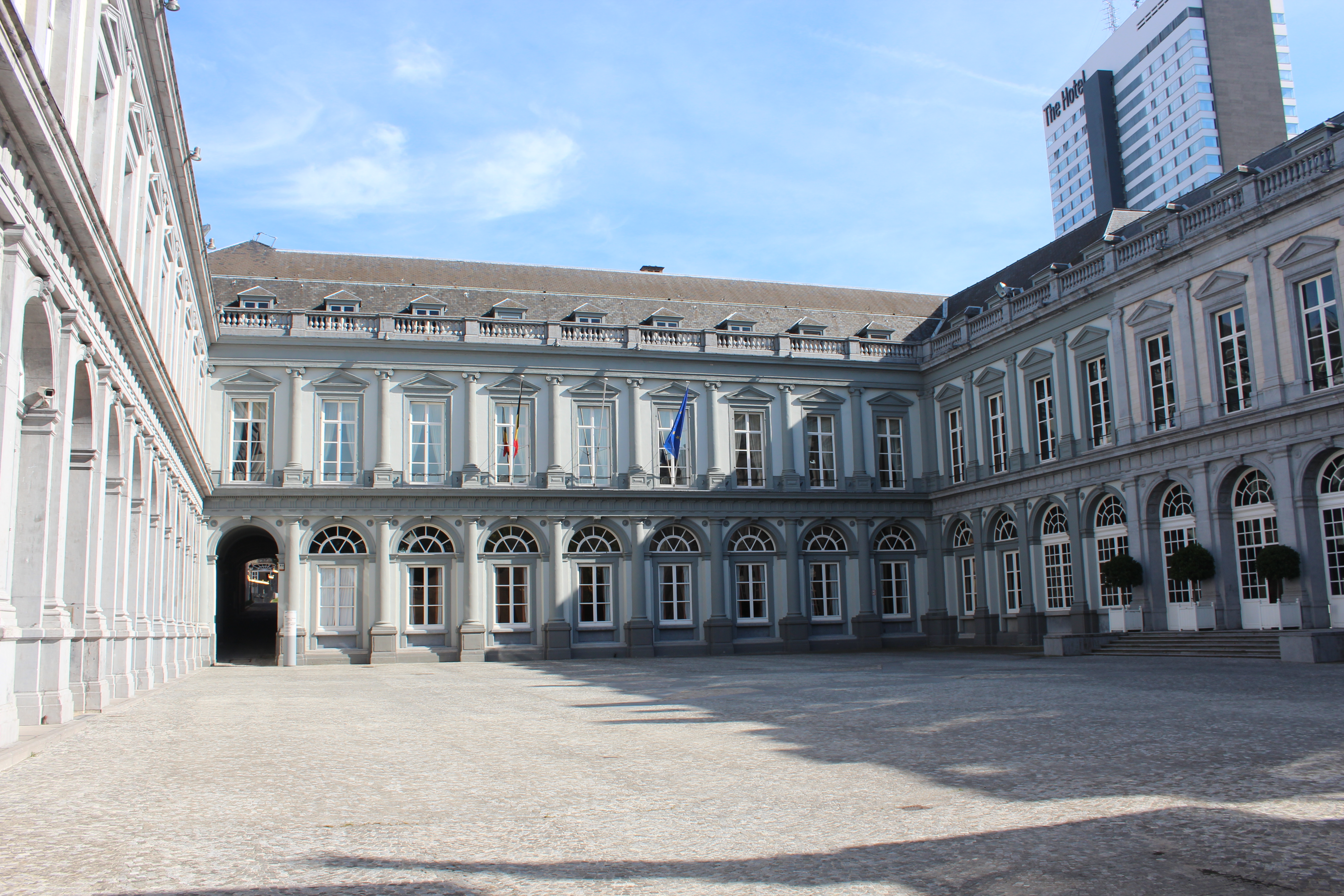 Palais d'Egmont - Egmontpaleis, Brussels.